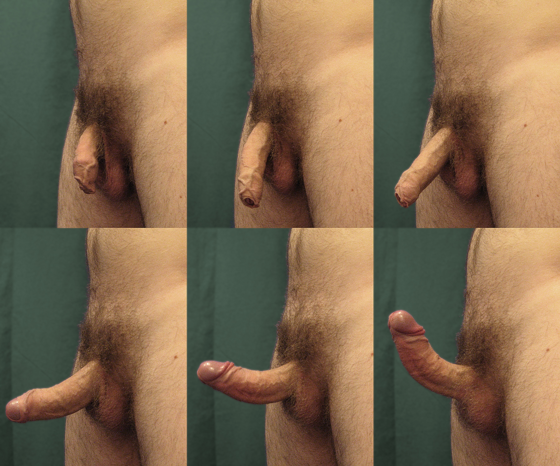 Erection Development of a Penis.